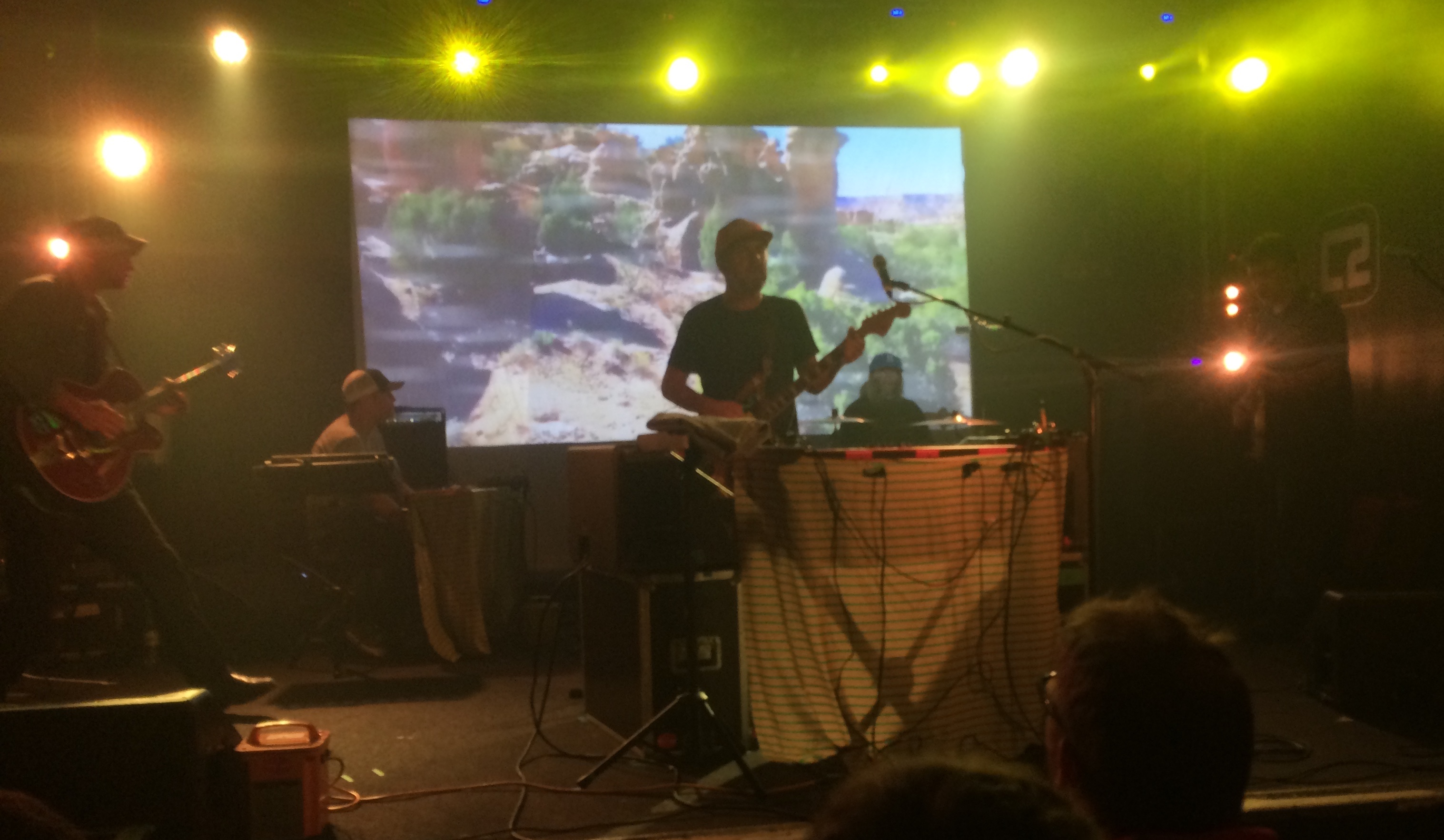 Grandaddy live at Concorde 2 venue in Brighton, Sussex, on 1 April 2017: Jim Fairchild was absent on this occasion, and was replaced by "our friend Sean" (at left).